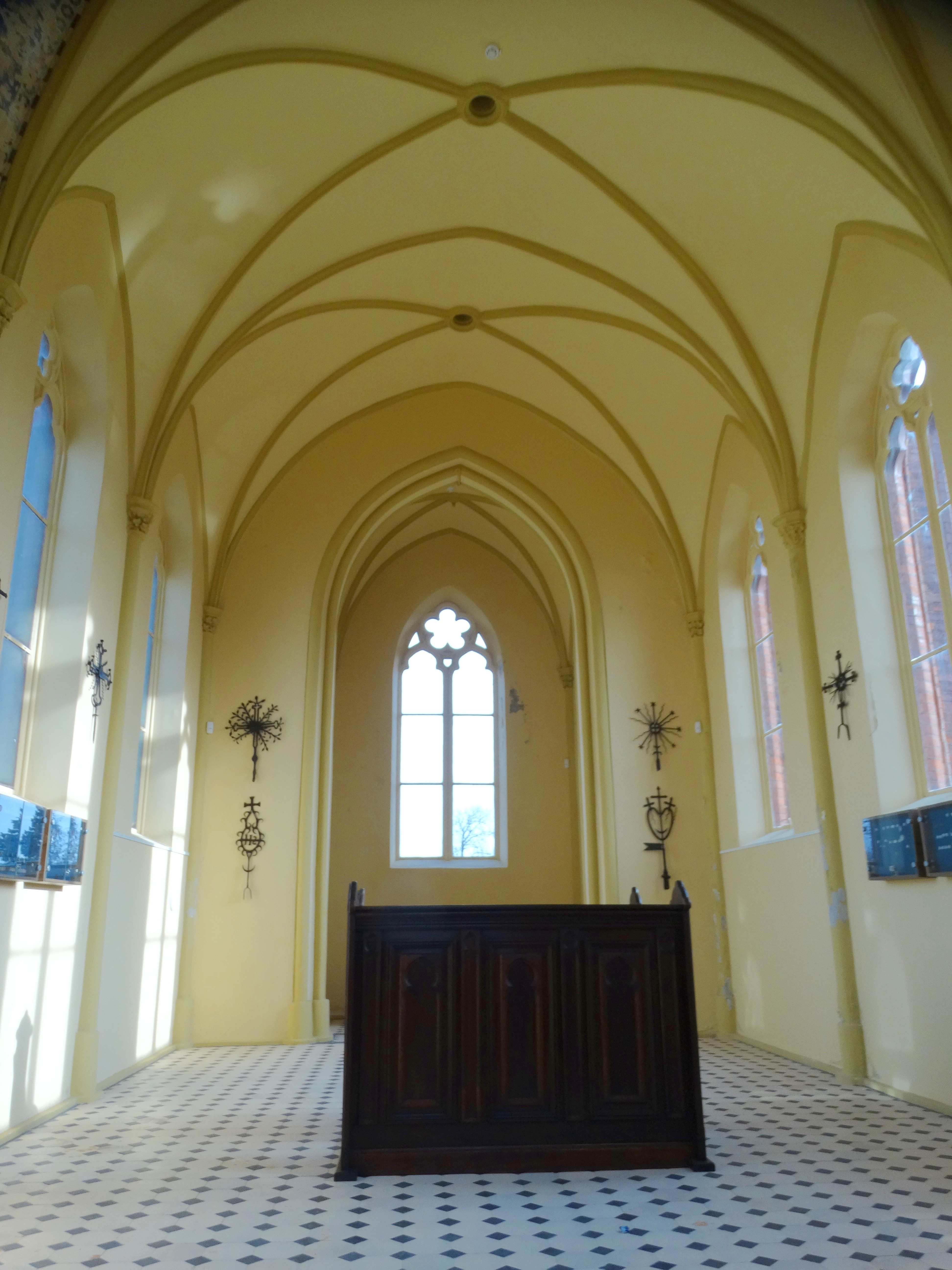 Tyszkiewicz family chapel, Kretinga, Lithuania